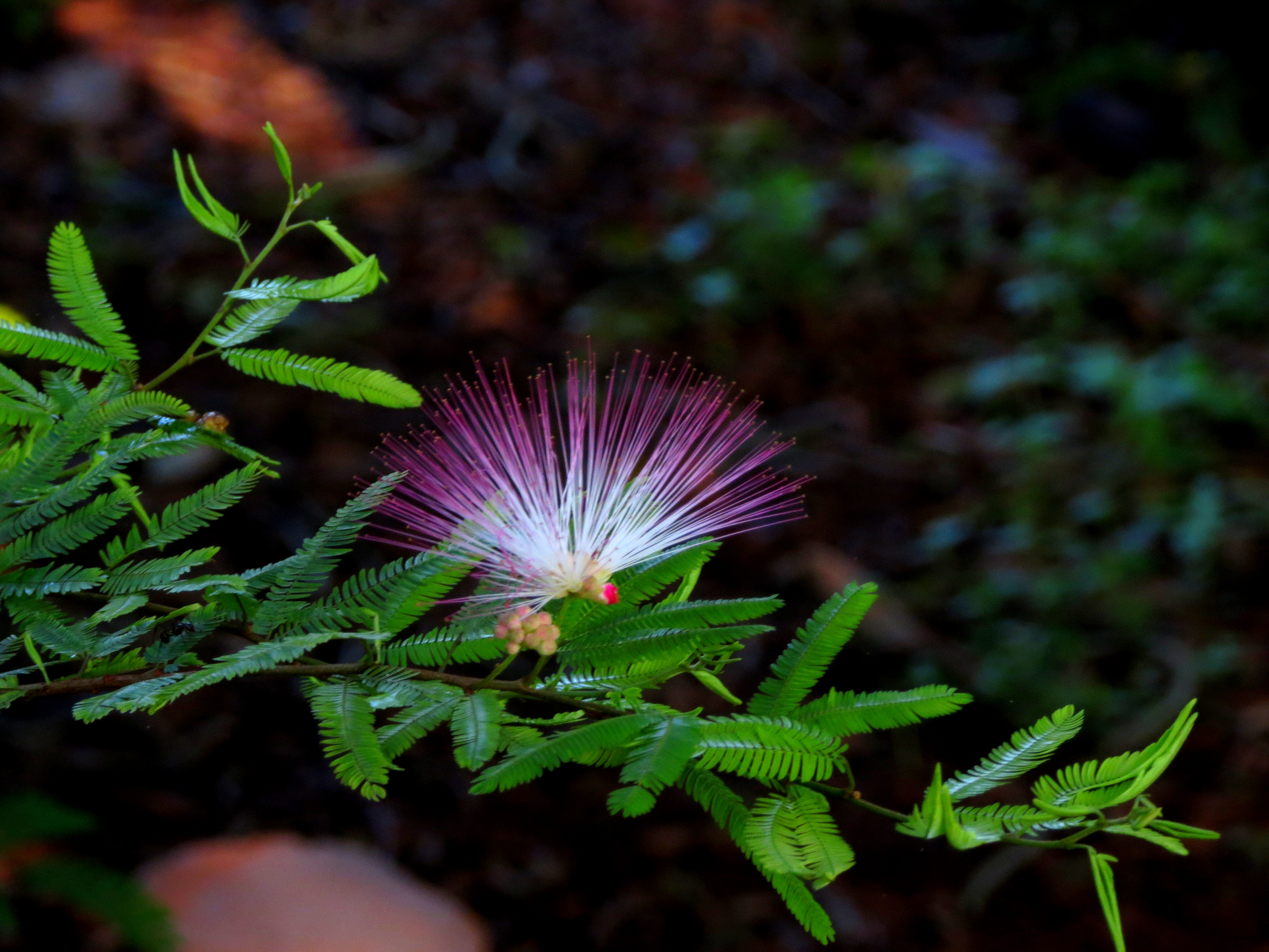 Calliandra brevipes or Pink Powder Puff plant seen in Hebbal lake in Bangalore. It has a nice and mild pleasent smell.